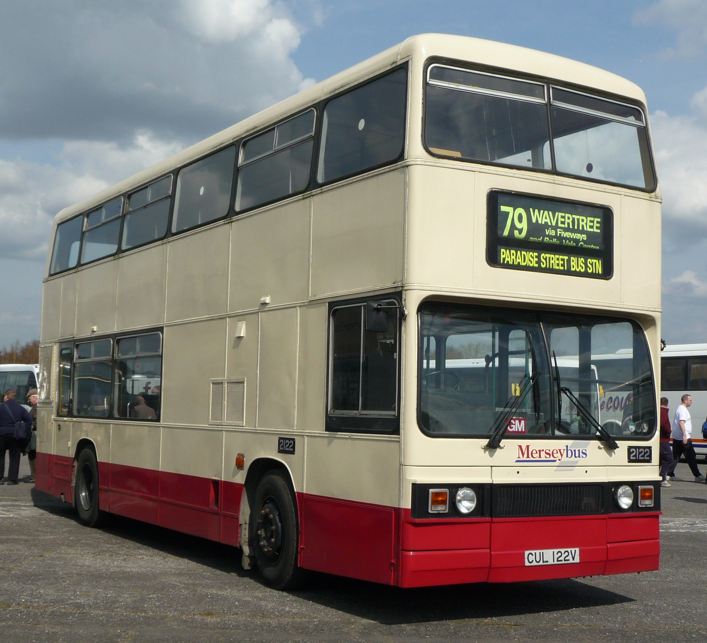 Preserved Merseybus bus 2122 (reg. CUL 122V), a 1979 Leyland Titan (B15), pictured at the 2009 Cobham bus rally at Wisley Airfield. The 152nd production Titan, it's from the early batch built by the British Leyland subsidiary Park Royal Vehicles in Park Royal, London (later ones were built at Leyland's expanded factory in the Lillyhall Industrial Estate, Workington). As with the vast majority of production, it was delivered new to London Transport as part of the dual-door T-class, allocated fleet number T122. It saw service in London until 1994, latterly in the post-deregulation/pre-privatisation East London arms length London Buses division. Instead of being privatised into a London company however, T122 was one of 250 Titans sold by London Transport to Merseybus (MTL Trust Holdings) between 1992 and 1994. Merseybus was the newly privatised former PTA operator covering the north west England conurbation of Merseyside. It entered their Titan refurbishment line at Edge Lane works, where it emerged in their red & cream livery, minus its centre door. Numbered 2122 it was allocated to Gilmore depot. It was inherited by Arriva North West when Arriva bought MTL in 2000, although the dominant position that created meant that T122 was divested by Arriva into the new company GTL (Glenvale Transport Limited), formed in July 2001 out of the Gilmore depot operations. Shortly before GTL's demise, in 2004 T122 was sold to a breakers intended to be scrapped, but was instead bought by West Kent Buses. WKB was a small post-privatisation operator based in West Kingsdown, specialising in school contracts and operating a few Titans in a mauve and cream livery, although T122 never entered service and was again due to be scrapped. It was however purchased for preservation in March 2006, the first ex-MTL to be preserved. It has since been restored to its Merseybus condition, as seen here.